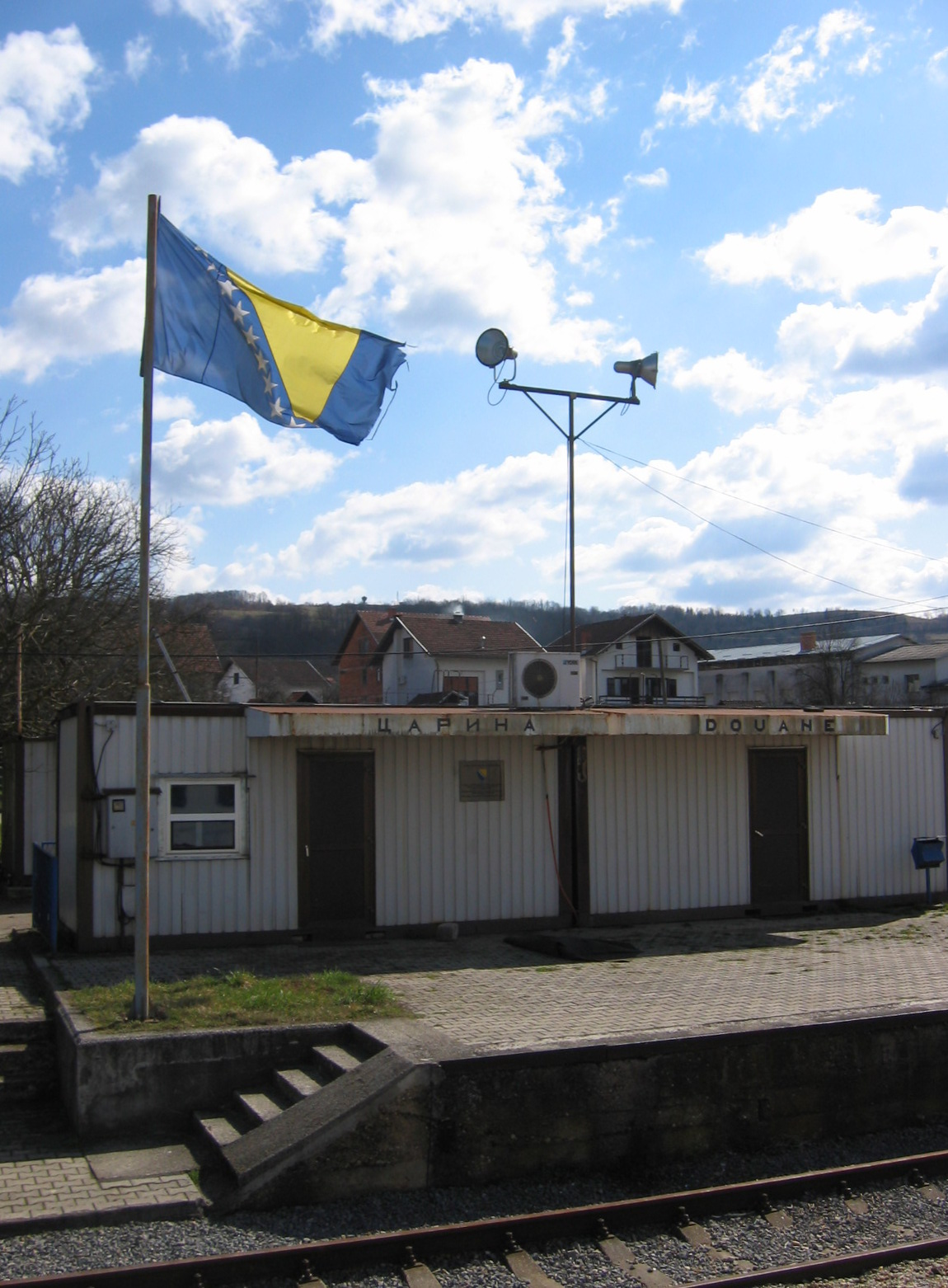 Bosnian customs post in Dobrljin near the Croat-Bosnian border.